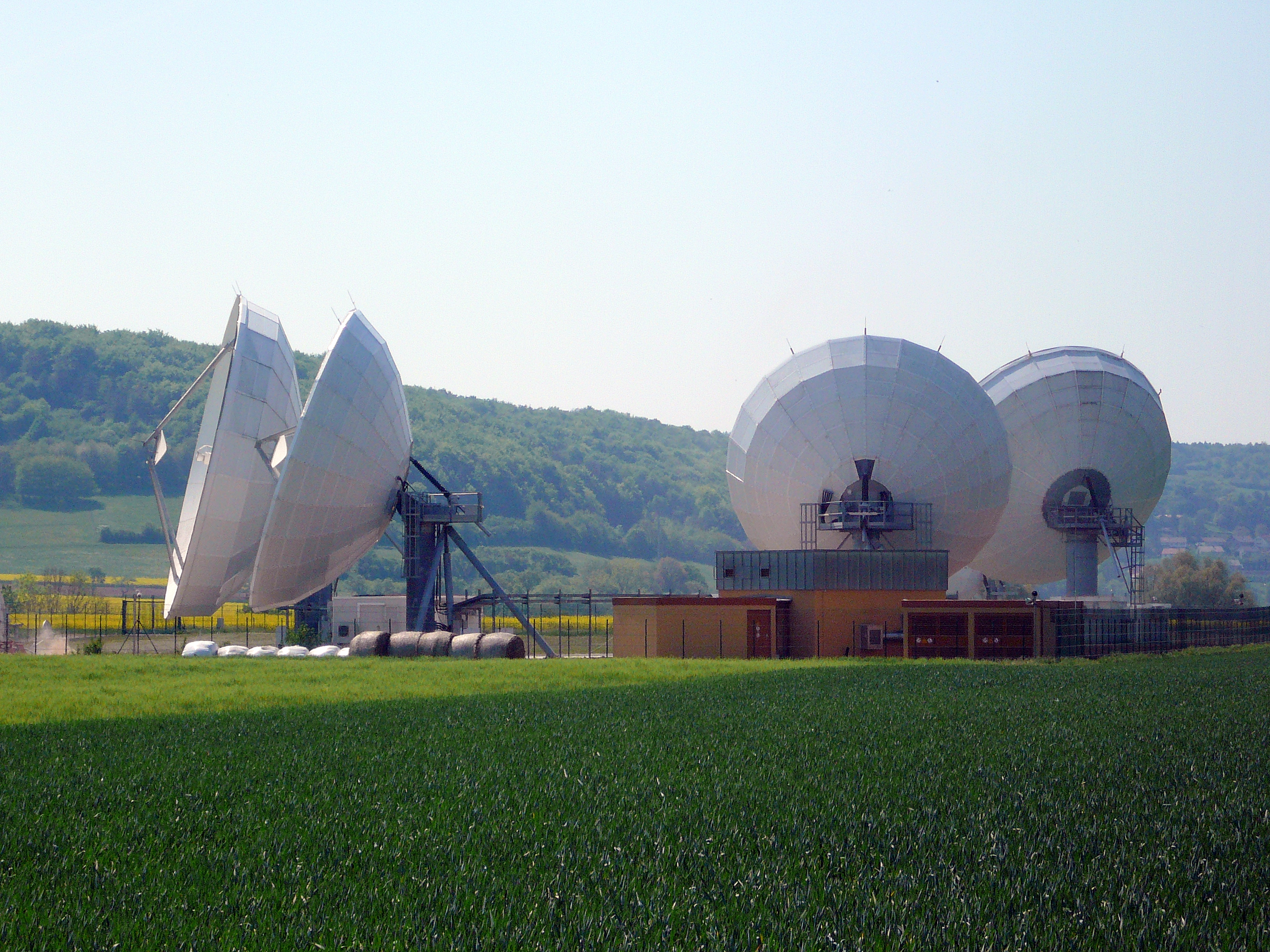 Satellite ground station Fuchsstadt, Germany, aerialfield four